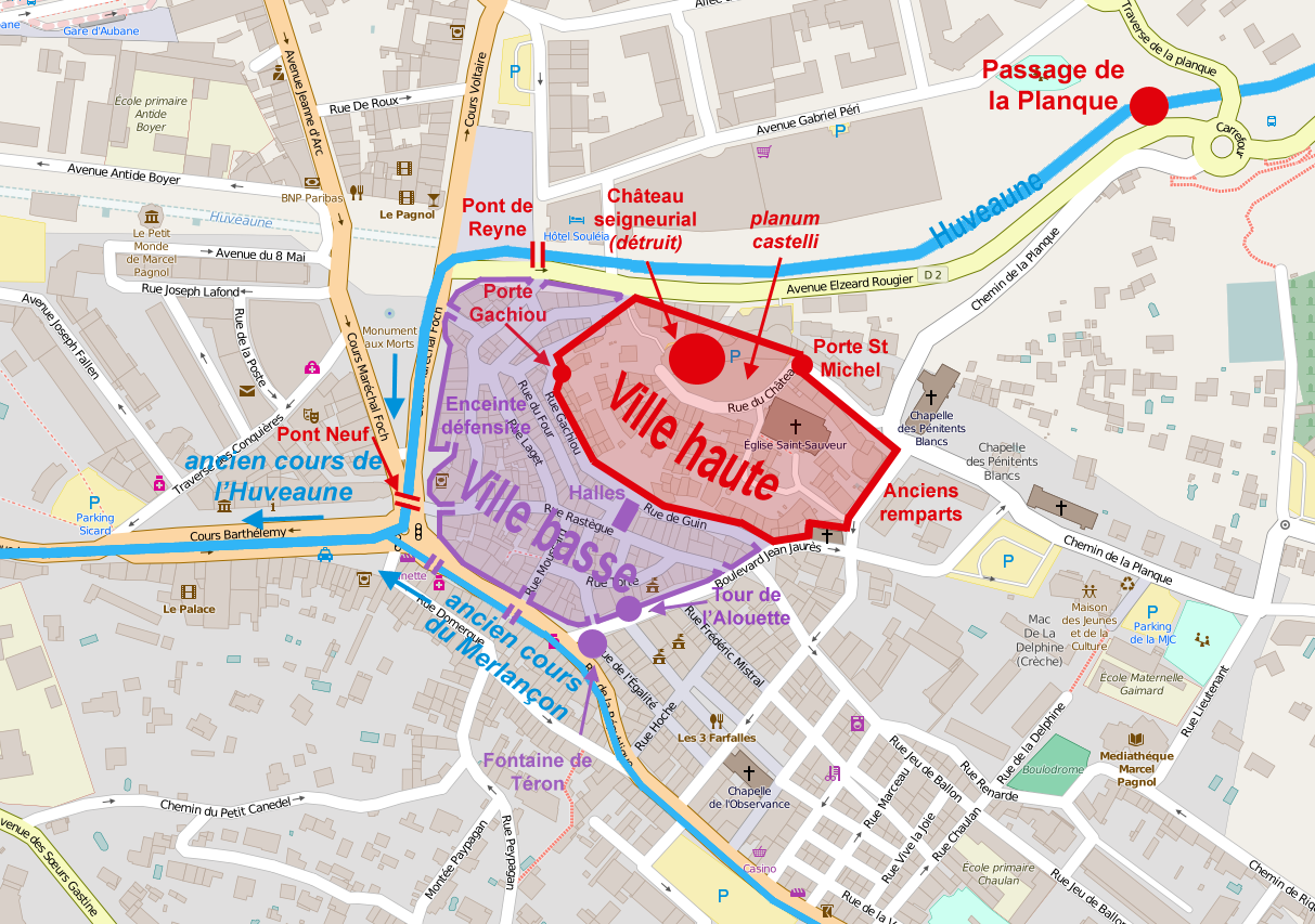 Map of Aubagne "ville basse"